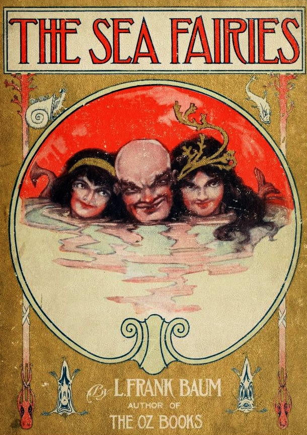 Original cover-art of 1911 book "The Sea Fairies" by Lyman Frank Baum (May 15, 1856 – May 6, 1919)